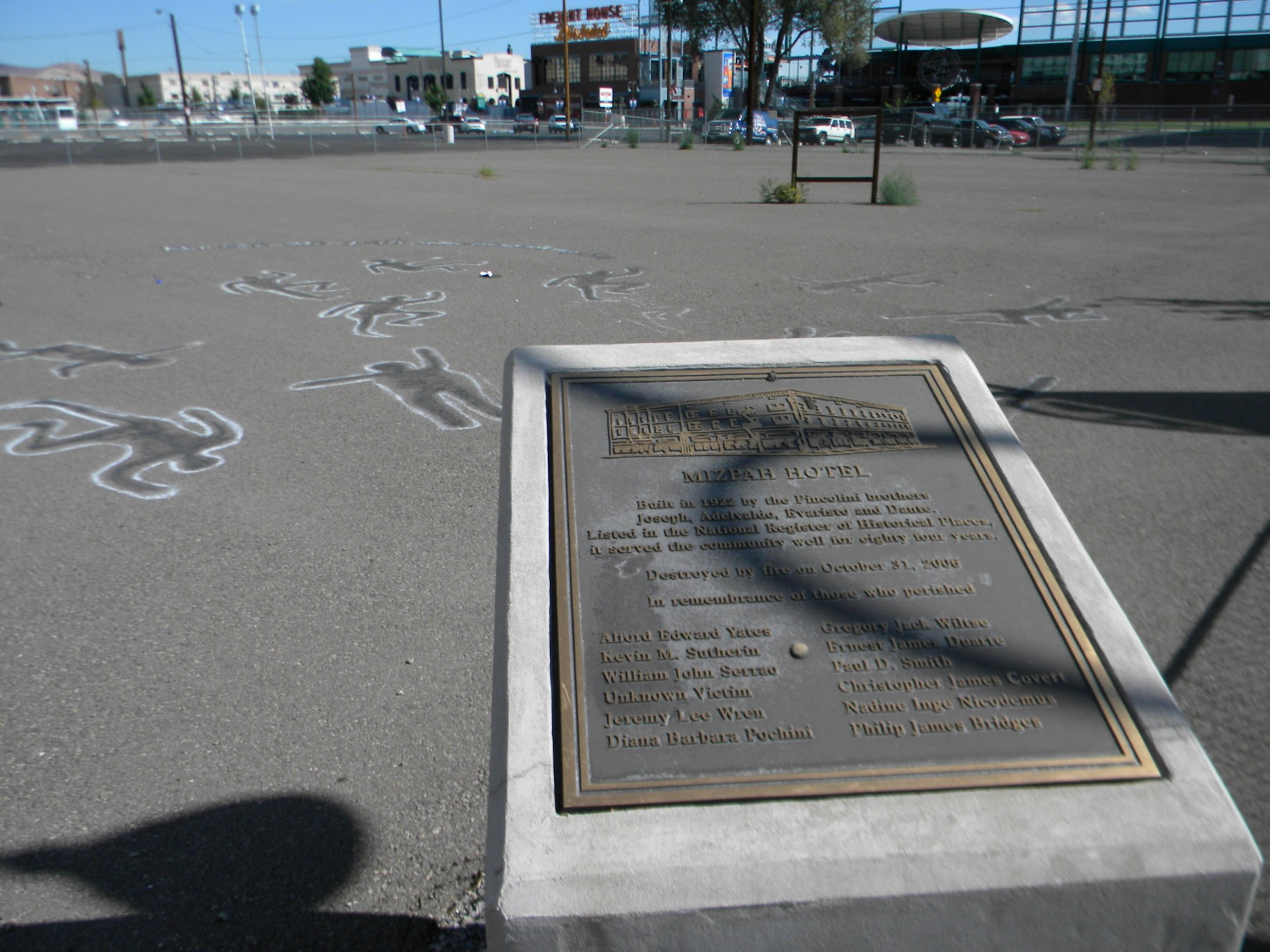 Pincolini Hotel Property was known as the Mizpah Hotel for many years. Has been va vacant lot some time.